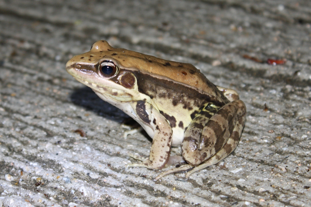 Günther's Frog (Hylarana guentheri). Taken in Sai Kung East Country park.